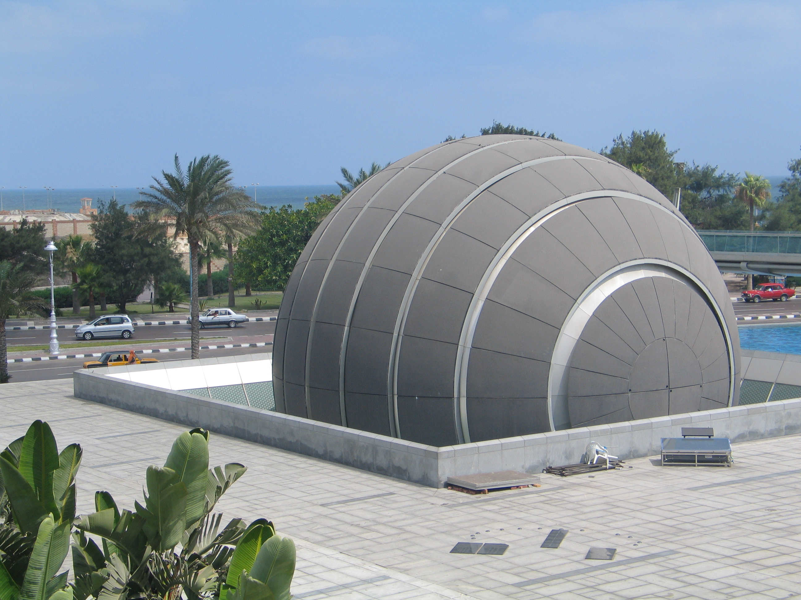 Bibliotheca Alexandrina, July 18th 2008